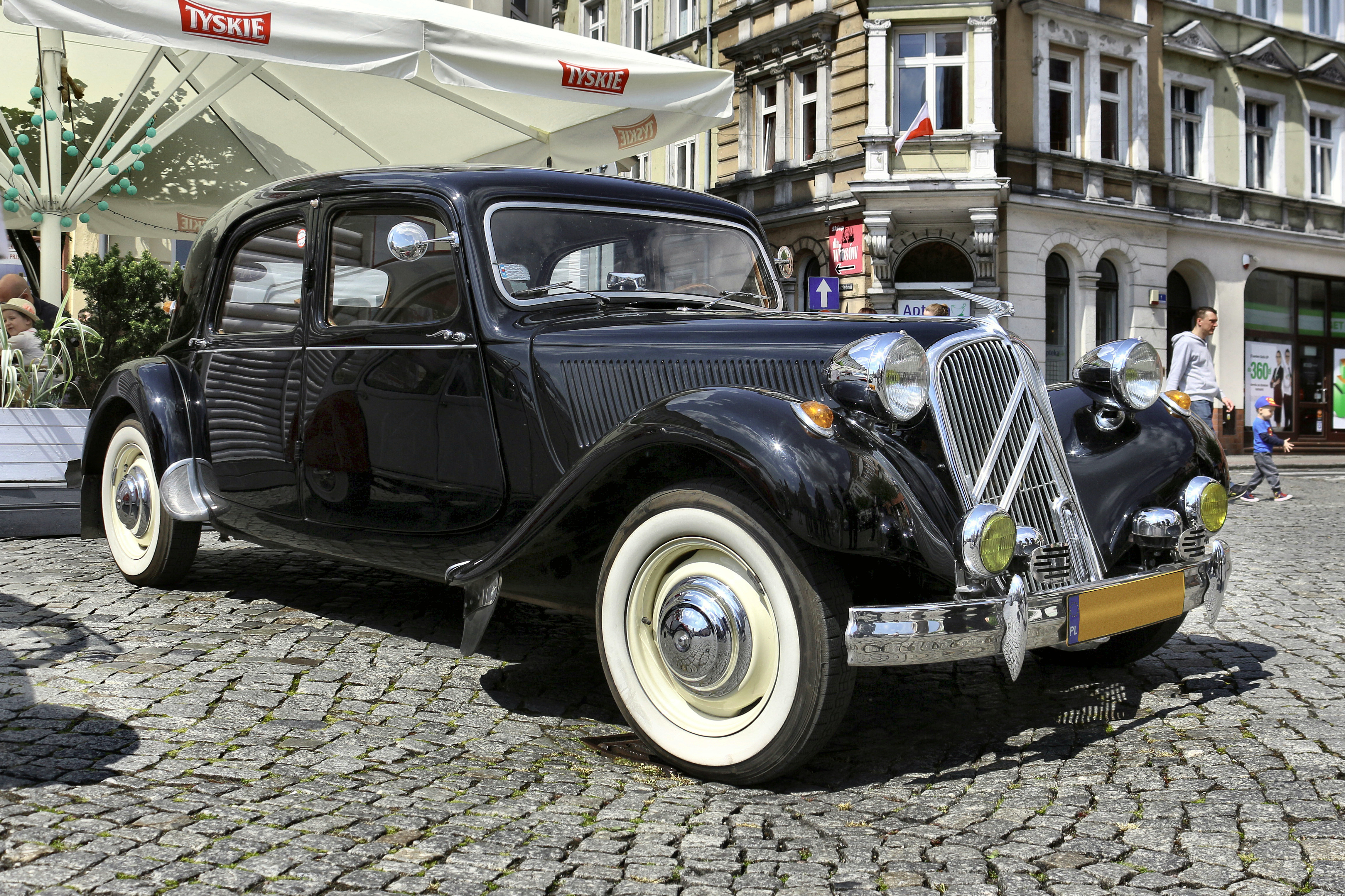 Citroën 11B 1952